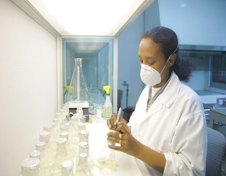 In ILRI's forage genebank on the ILRI Addis Ababa campus, Mulu Abebe, ILRI lab technician, prepares media for plant tissue culture in the tissue culture lab (photo credit: ILRI/Stevie Mann).